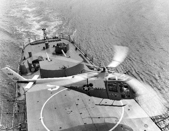 First prototype Lockheed XH-51A landing the U.S. Navy Gearing-class destroyer USS Ozbourn (DD-846), circa in 1963.